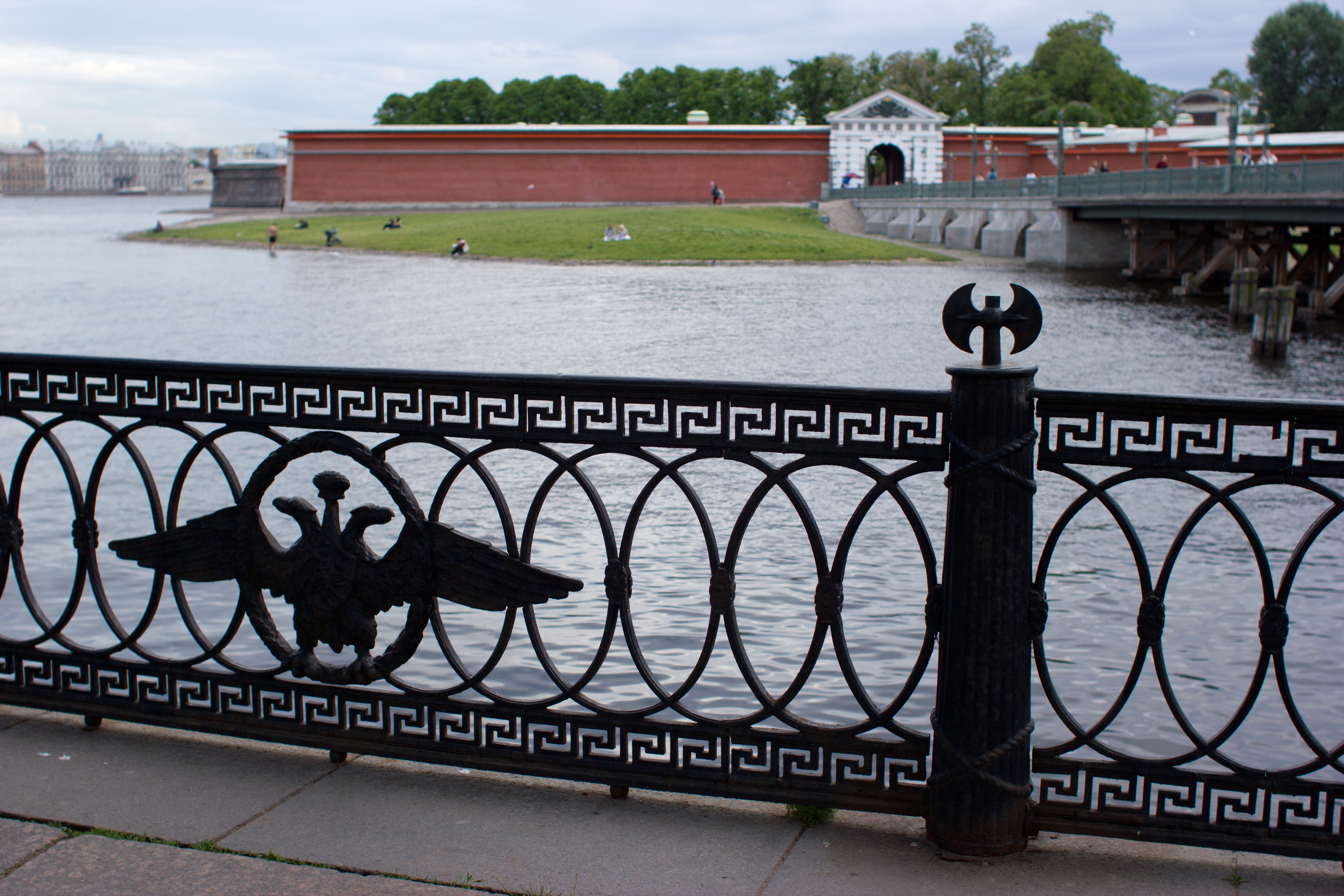 St.Petersburg Russia Fence Fasces